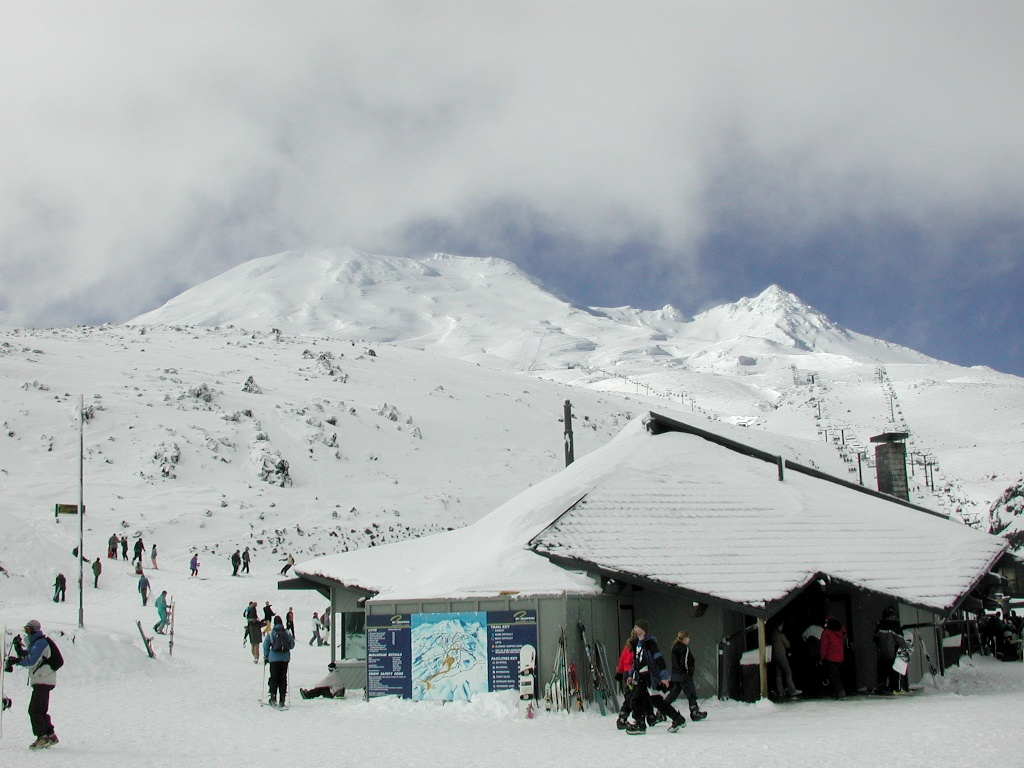 Base of Turoa skifield in winter 2002. The skifield is situated on the south-facing slopes of Mt Ruapehu.